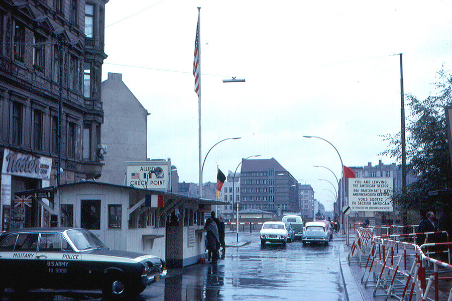 Checkpoint Charlie was on Friedrichstrasse, near Kochstrasse. It was the only crossing between West Berlin and East Berlin that could be used by Americans and other foreigners, and by members of the Allied Forces. The other six checkpoints were for residents of West Berlin or West Germany.